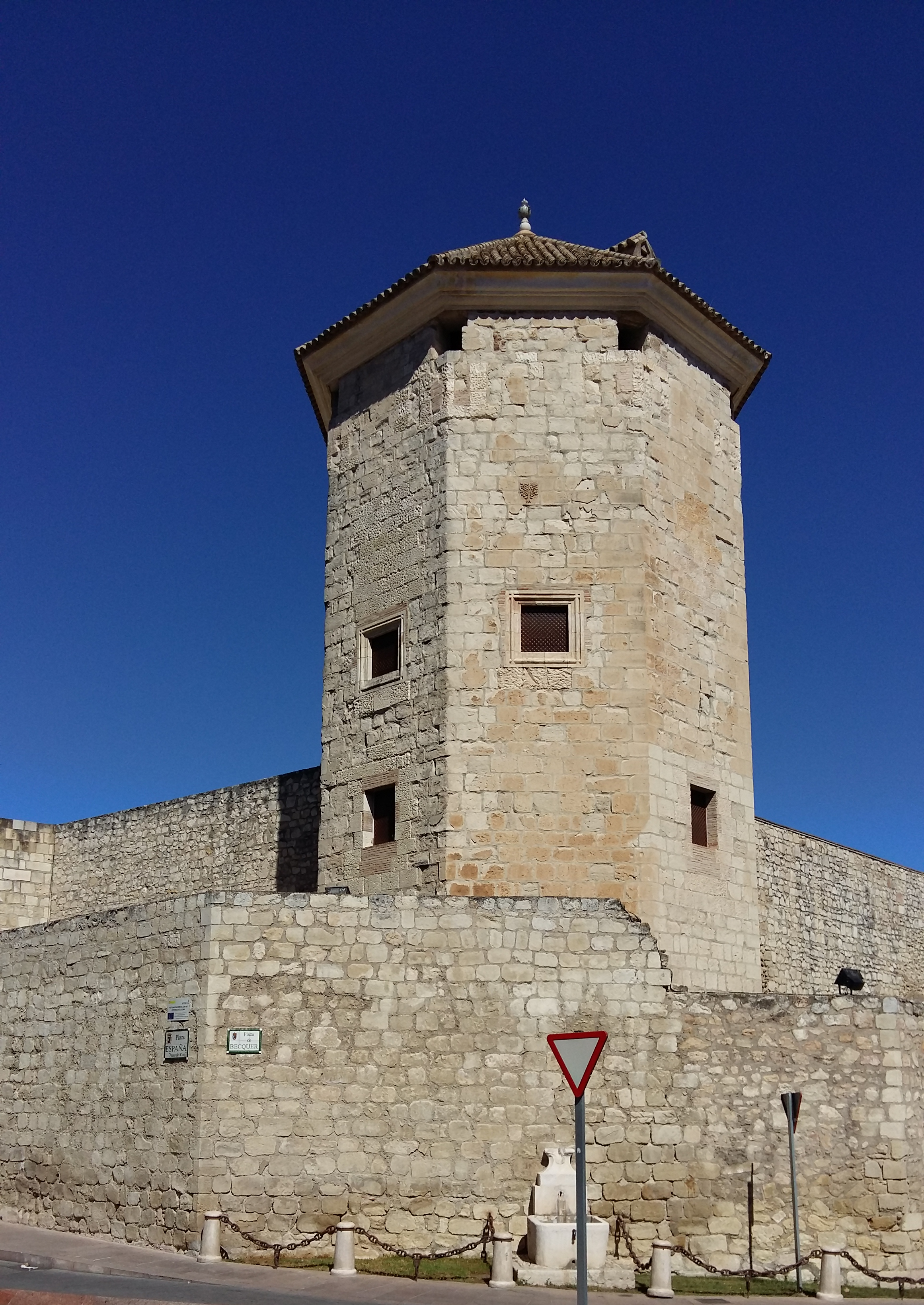 Castillo del Moral